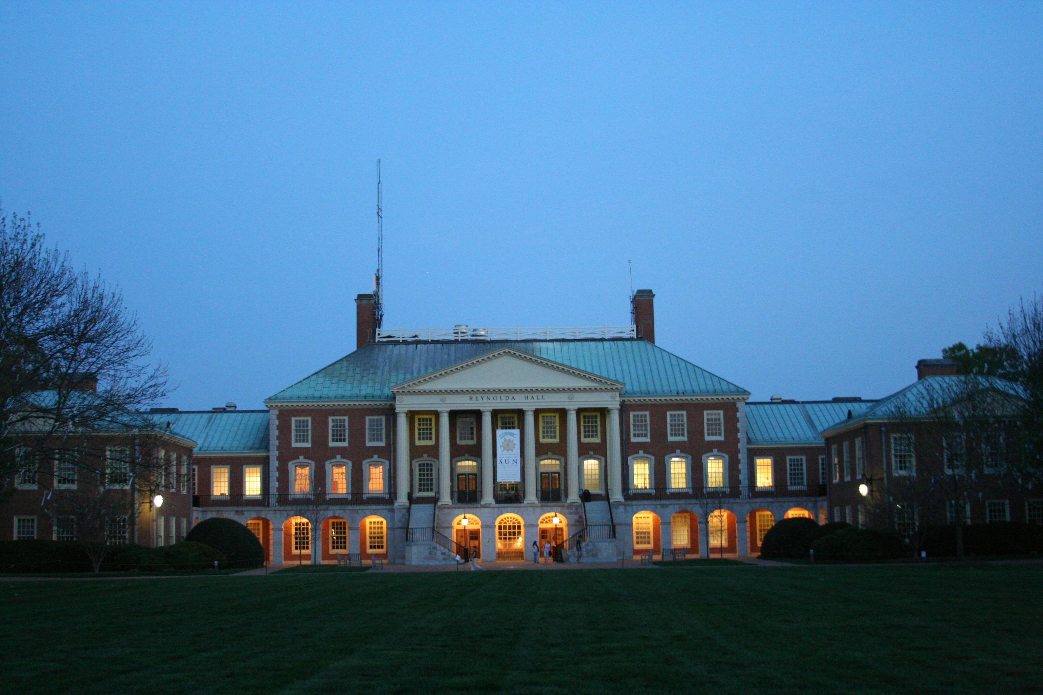 Reynolda Hall at dusk on the campus of Wake Forest University on April 4, 2007